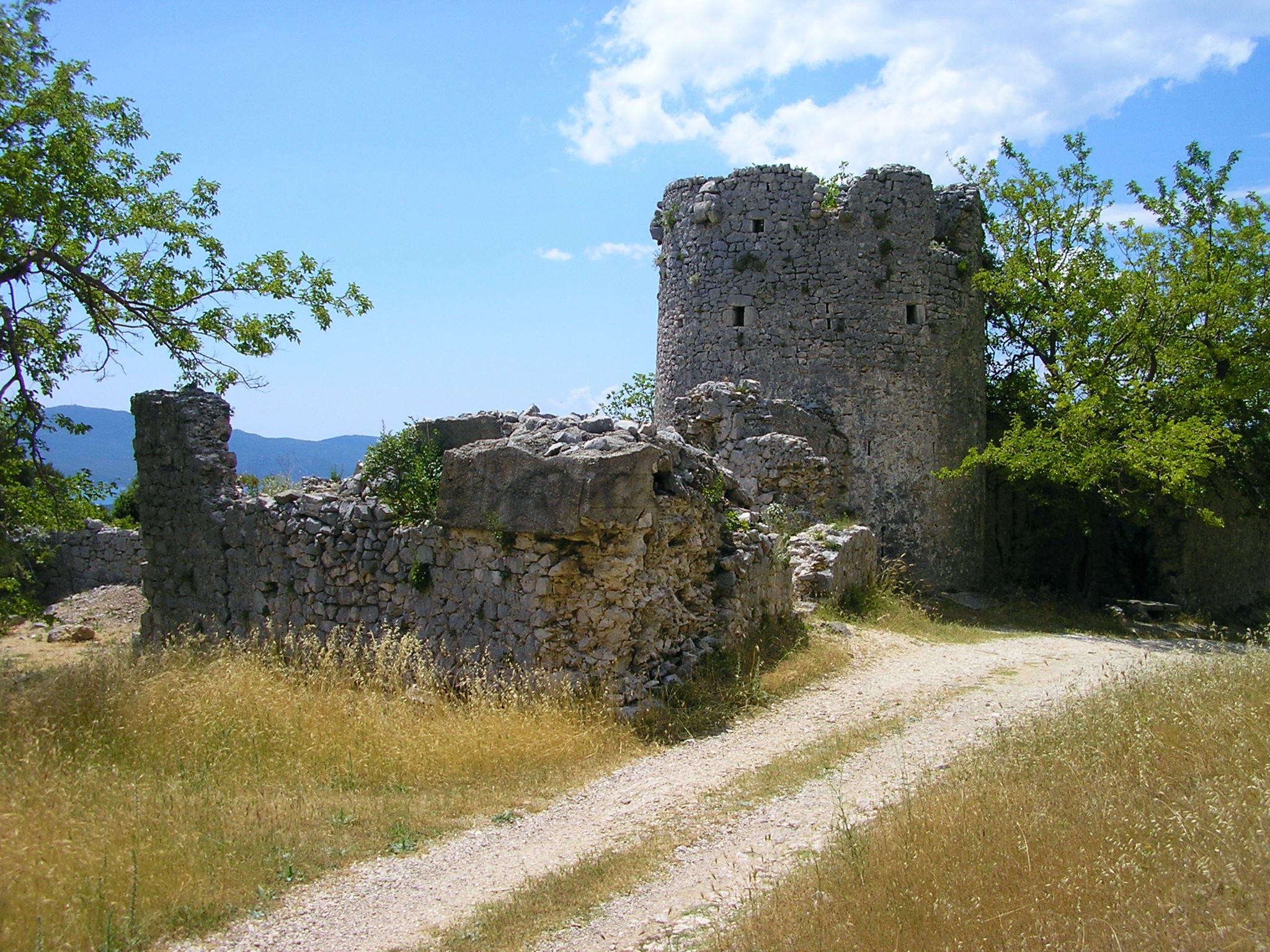 Smrdan castle